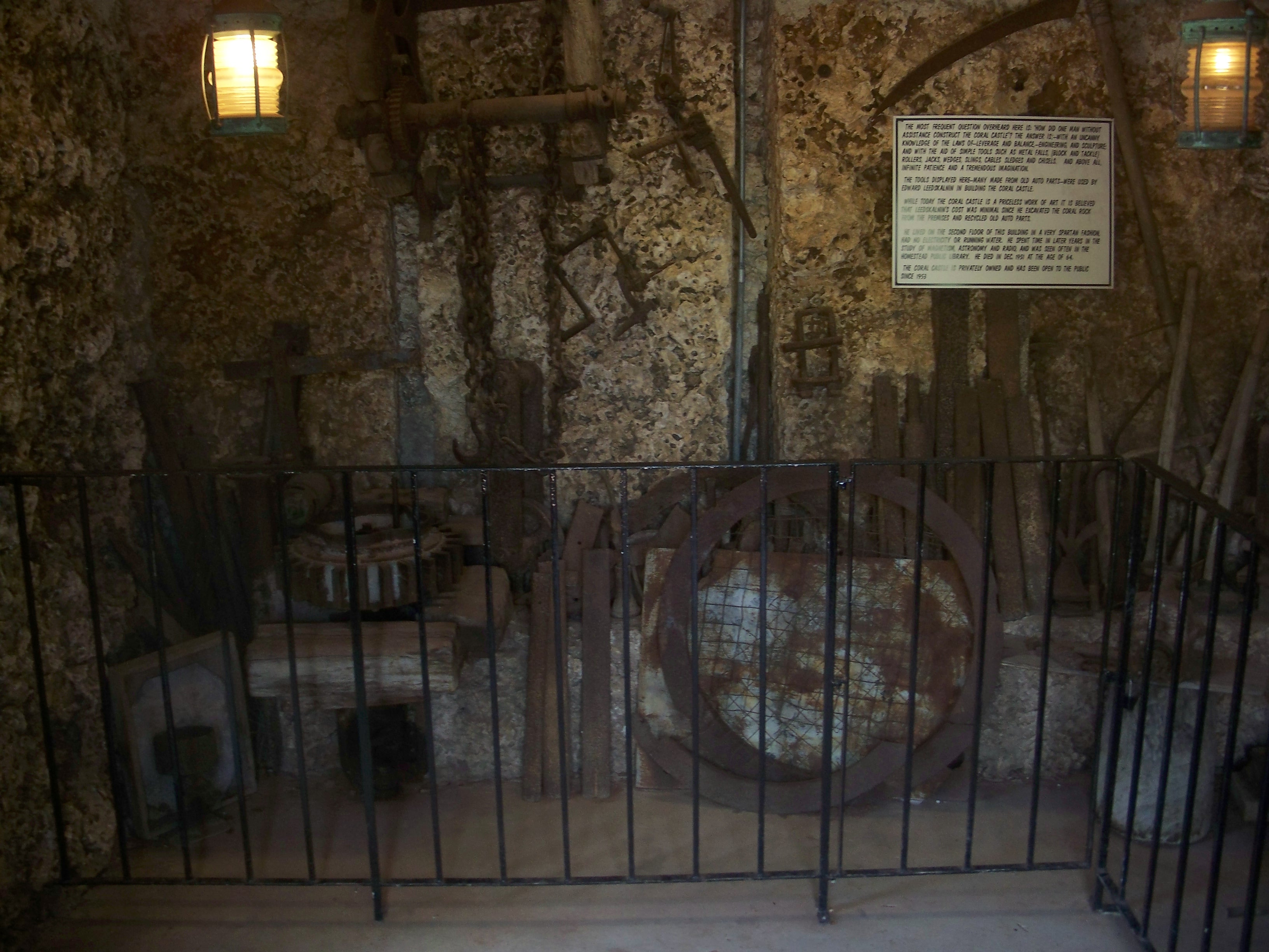 Homestead, Florida: Coral Castle: Living quarters